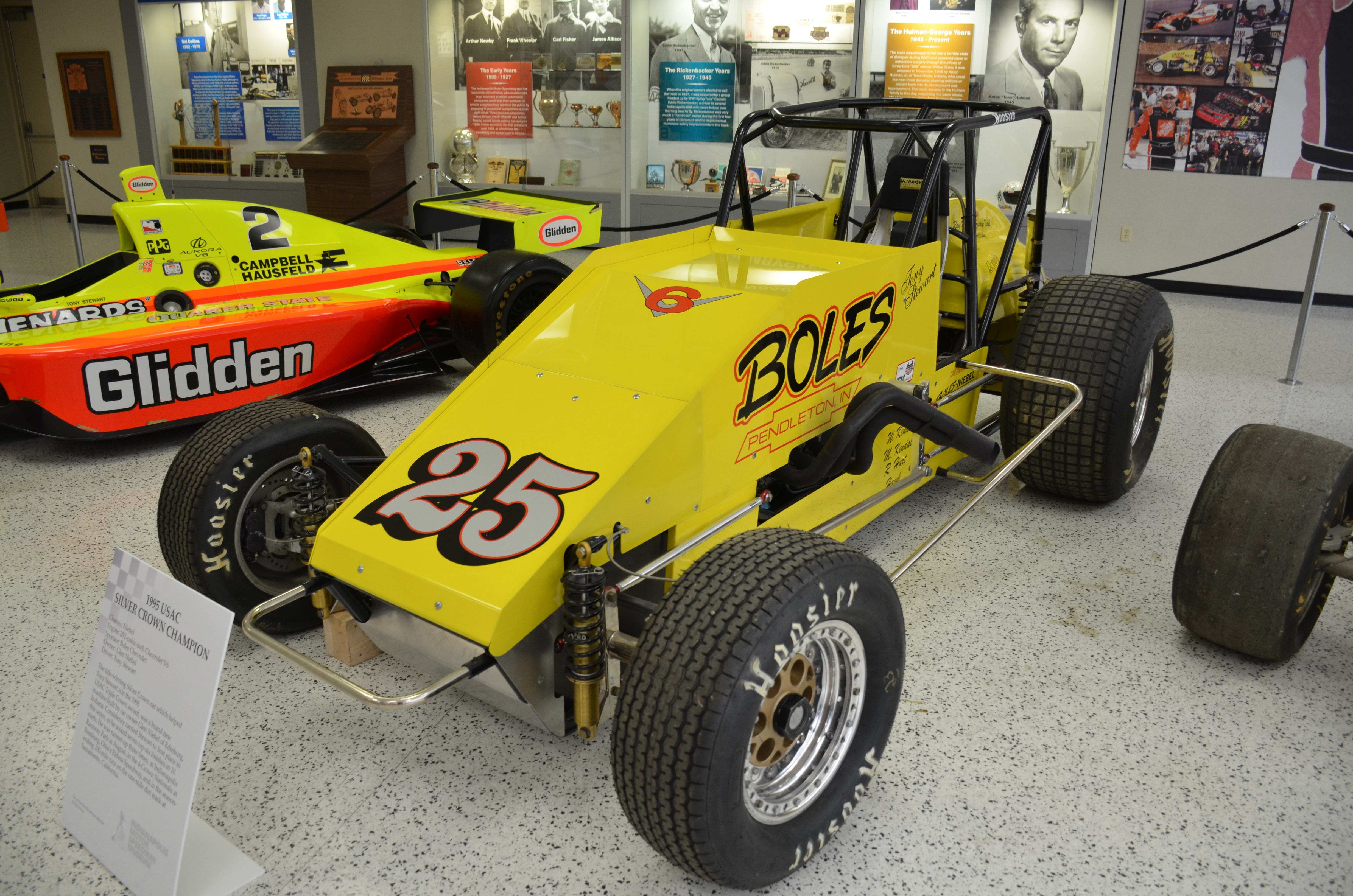 Tony Stewart's 1995 Silver Crown Championship car ("Triple Crown"). On display at the Indianapolis Motor Speedway Museum in 2016.